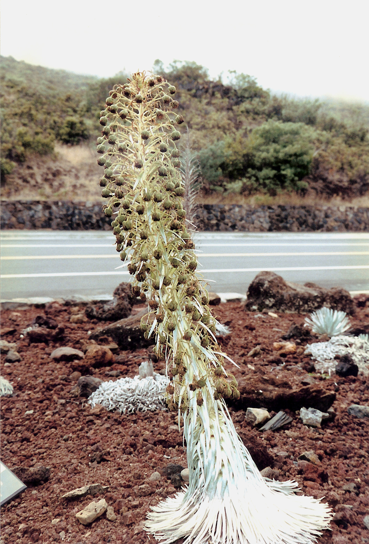 Haleakala Silversword (Argyroxiphium sandwicense macroencephalum), growing along the road to the summit of Mount Haleakala, Maui, Hawaii, USA